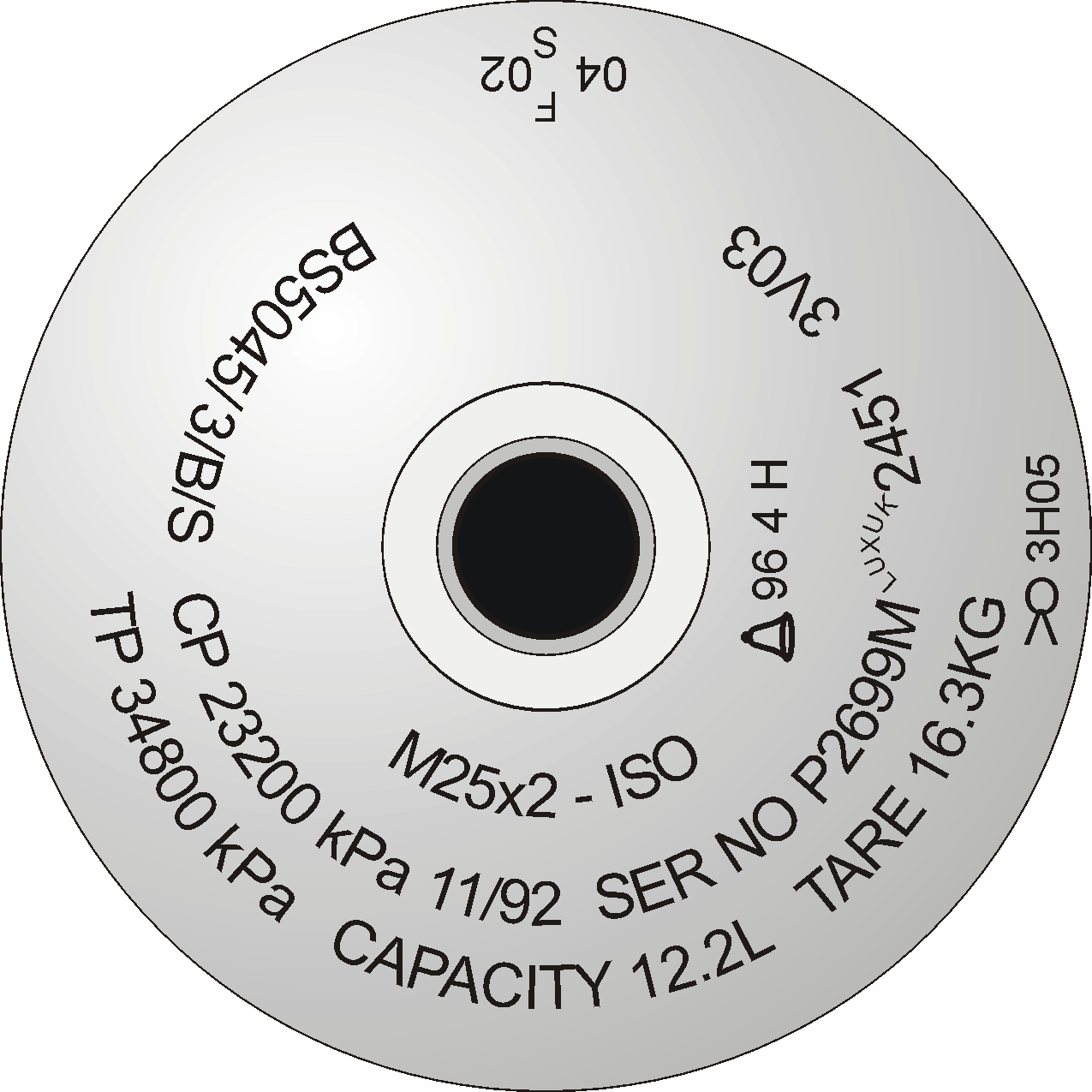 Stamp markings on a British manufacture aluminum 12.2l 232bar cylinder